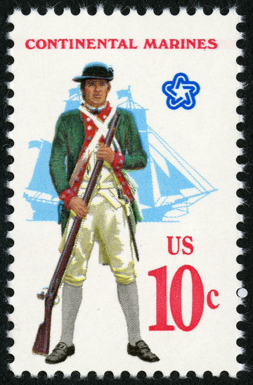 Military Services Uniforms Bicentennial: Continental Marines 10c 1975 issue U.S. stamp